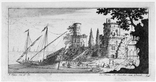 Galley lying near a castle, in etching